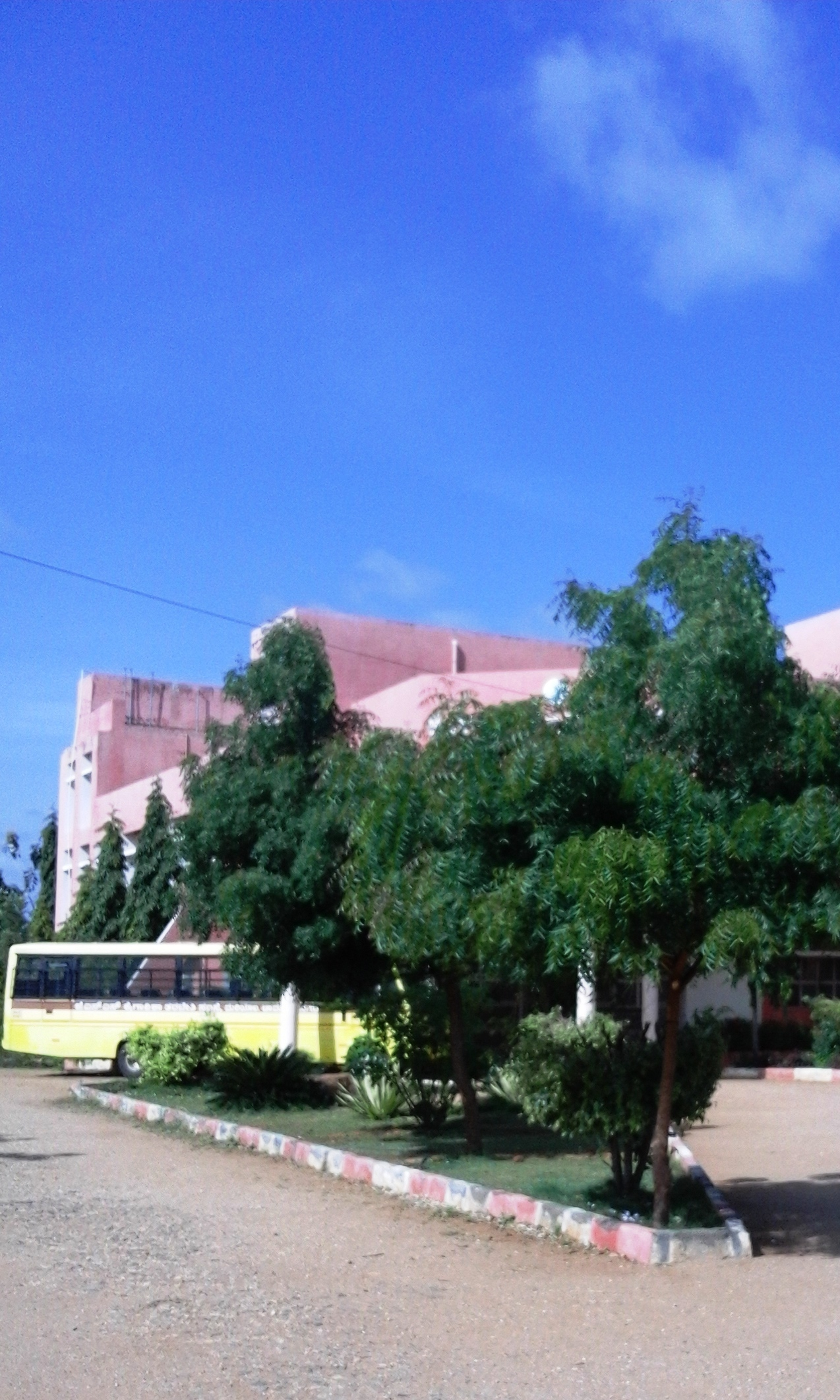 Chamarajanagar District, Karnataka state, India.